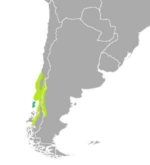 Pudu_puda_Range